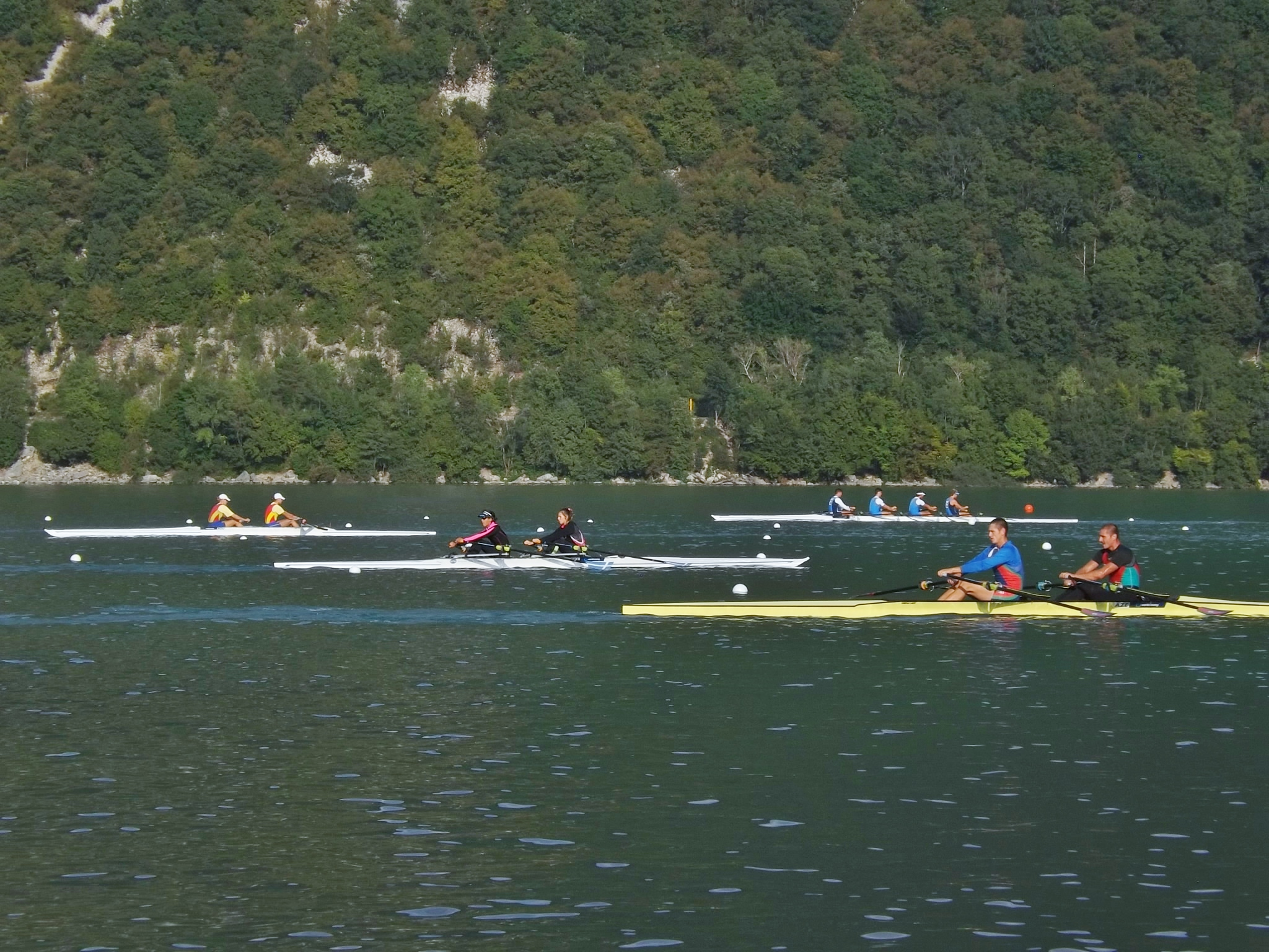 Sight of the usual evening training session, during the 2015 World Rowing Championships, taking place on the lac d'Aiguebelette lake, in Savoie, France.